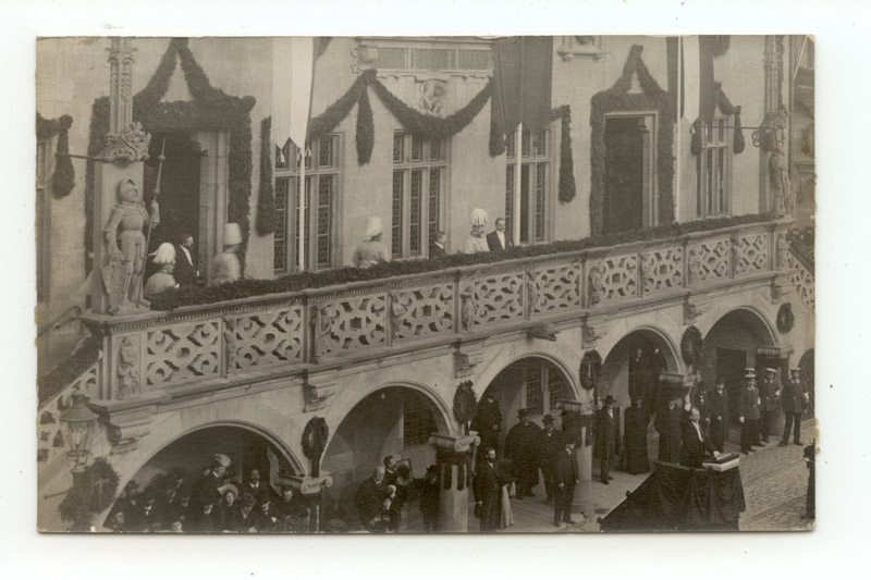 Heilbronn, Altes Rathaus, Freitreppe, Ansprache von König Wilhelm II. am 09.11.1906 zum 100jährigen Jubiläum des Füsilierregiment (4. Württembergisches Infanterie-Regiment Nr. 122), Archivsignatur F003-M_0081-7529.jpg